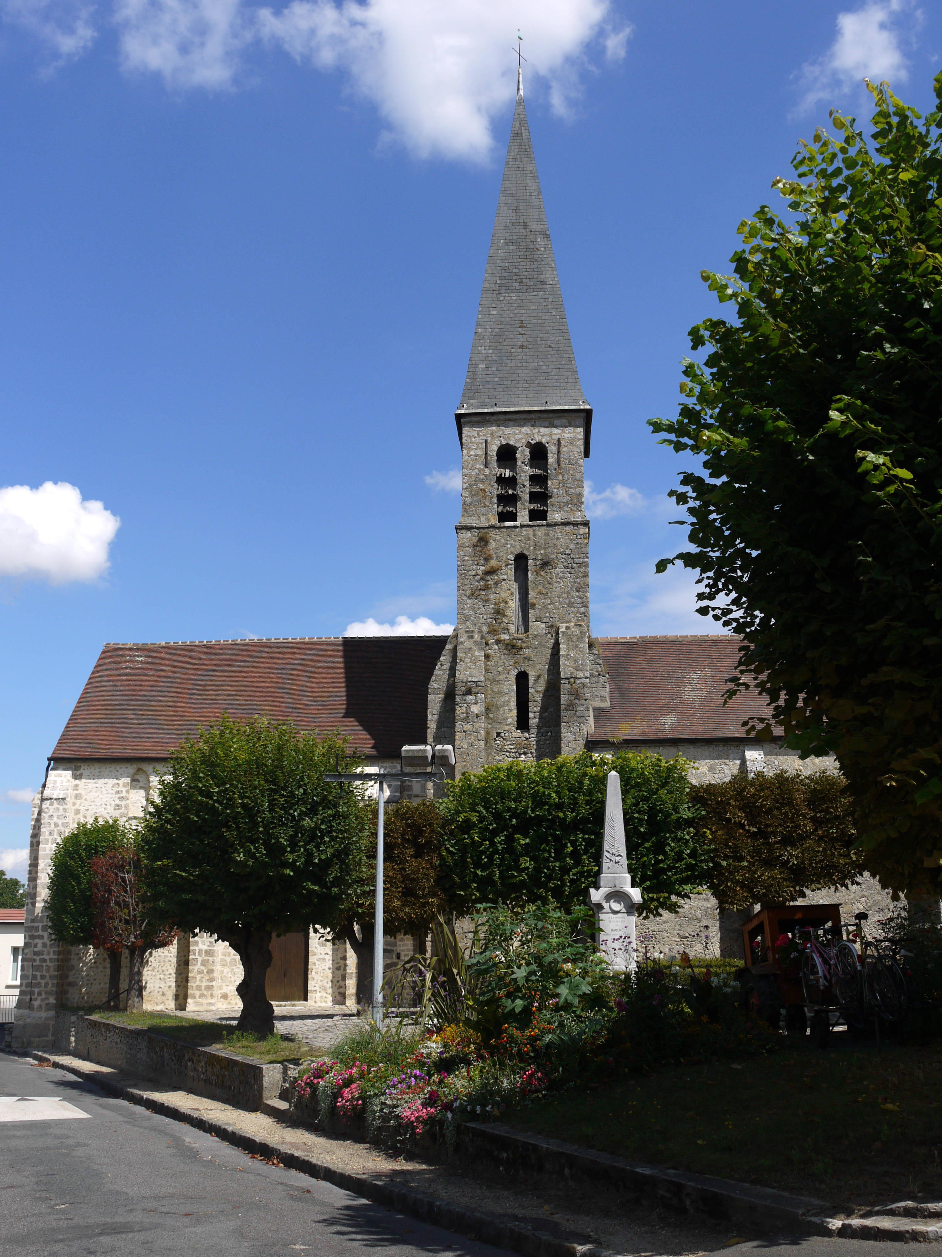 Church of Baulne, Ile de France, France